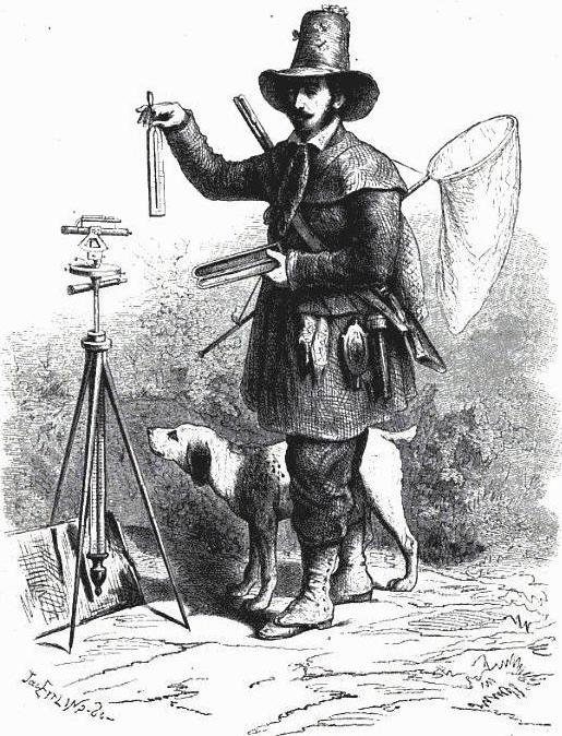 Template:Alberto della Marmora